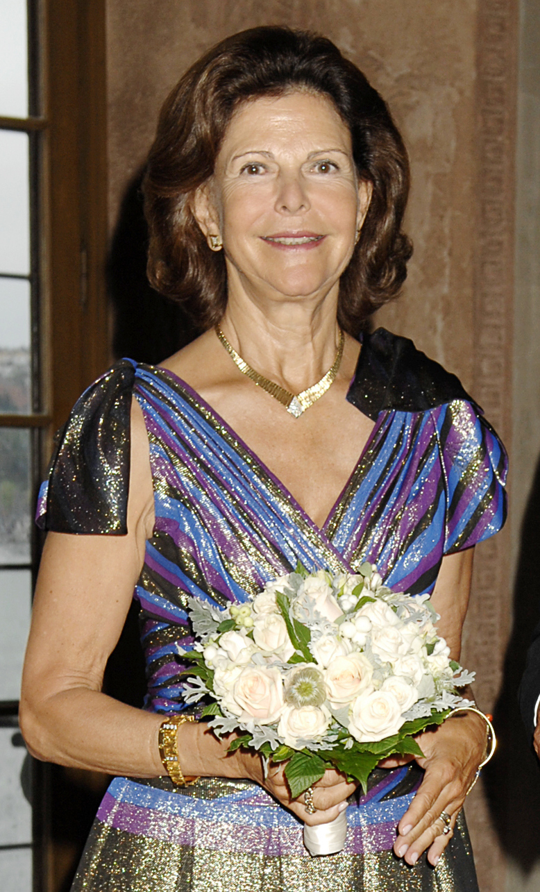 The King and Queen of Sweden at the World Water Week in Stockholm in 2011